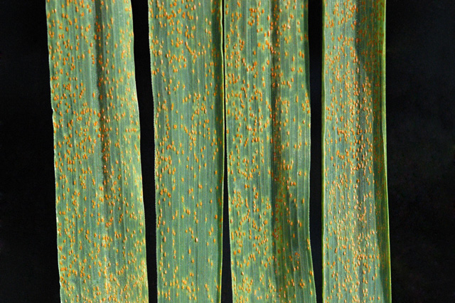 Close-up of wheat leaf rust (Puccinia triticinia) on wheat.